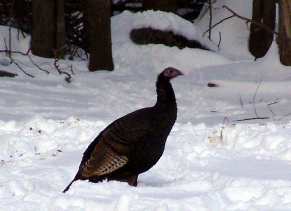 Wild Turkey (Meleagris gallopavo) Location: Greater Madawaska Township, Ontario, Canada Date: 2005-12-19 Licence: Released under GFDL and Creative Commons licenses by the photographer